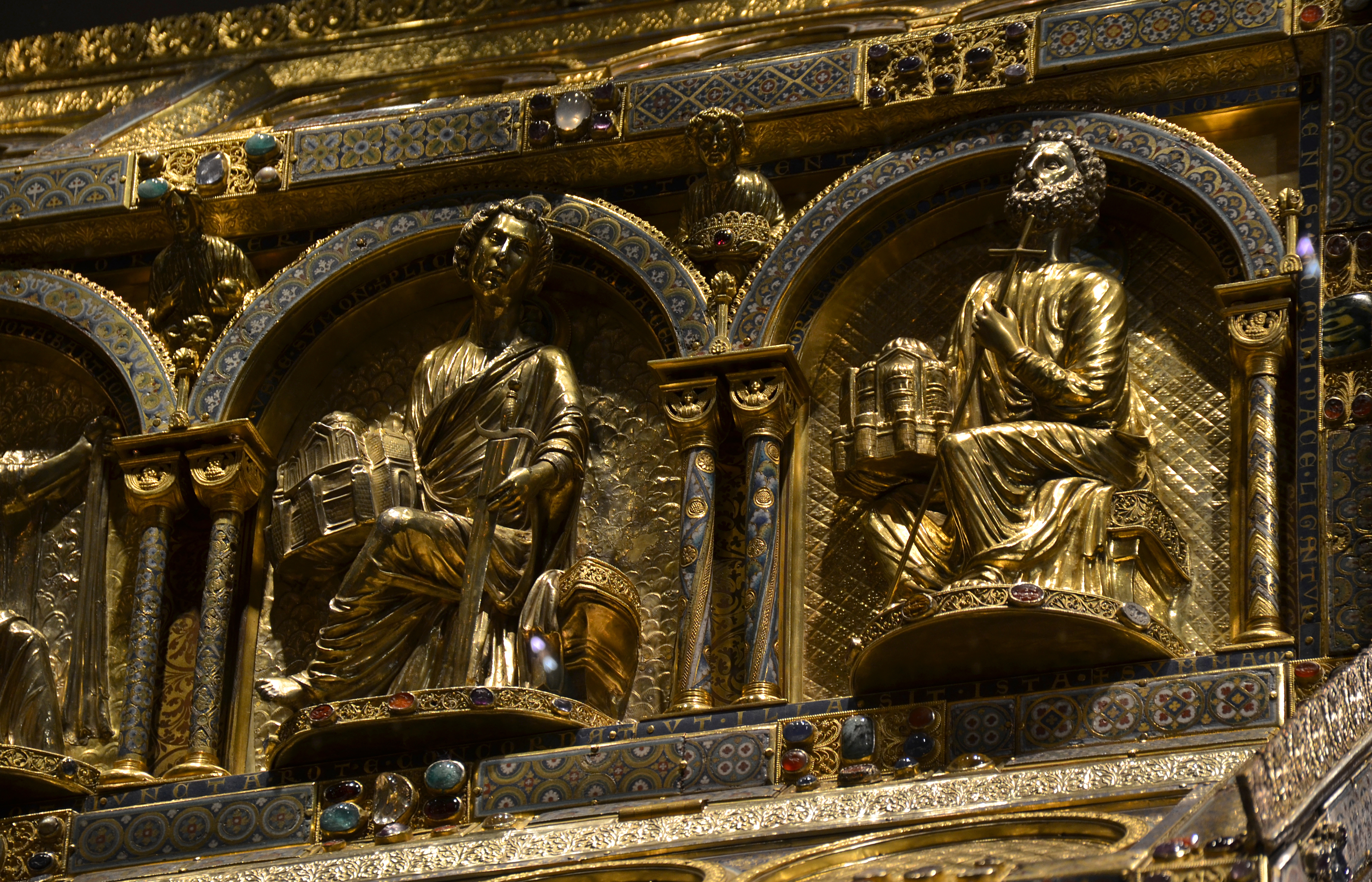 A detail of the Shrine of the Three Magi, in the cathedral of Cologne. End of the 12th century, beginning of the 13 th century ( about 1180 - 1220 ).